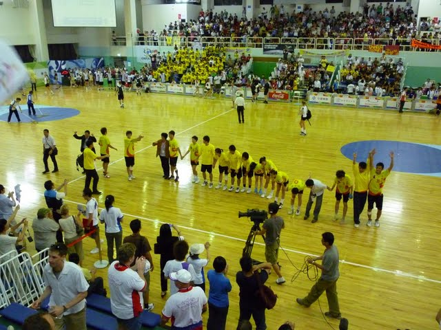 Chinese Taipei, bronze medalists in World Games 2009 Kaohsiung Korfball tournament.The World Games 2009 Kaohsiung